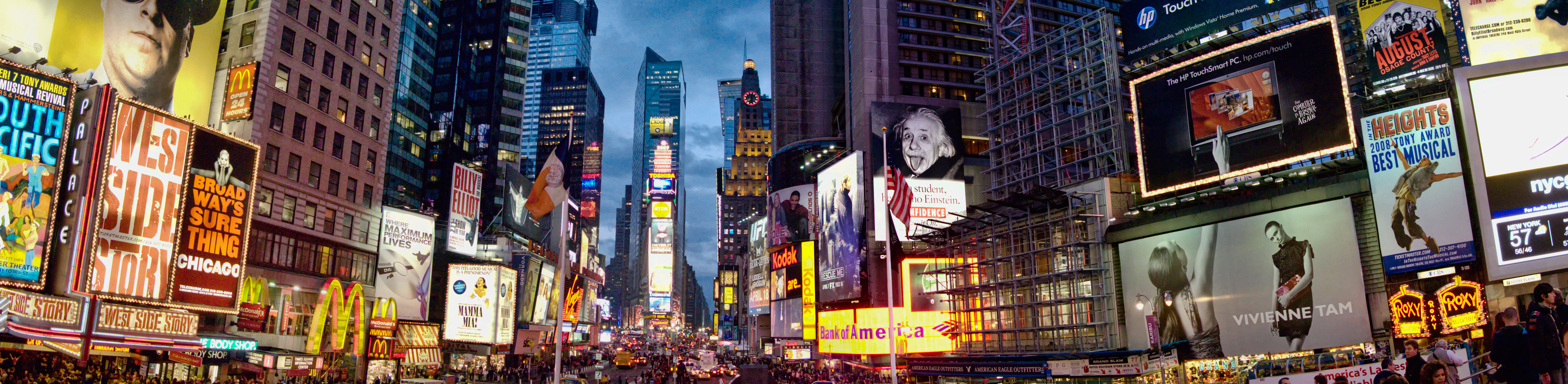 to really see the details please view it large Times Square, Manhattan, New York, USA Canon Powershot G9 handheld panoramic